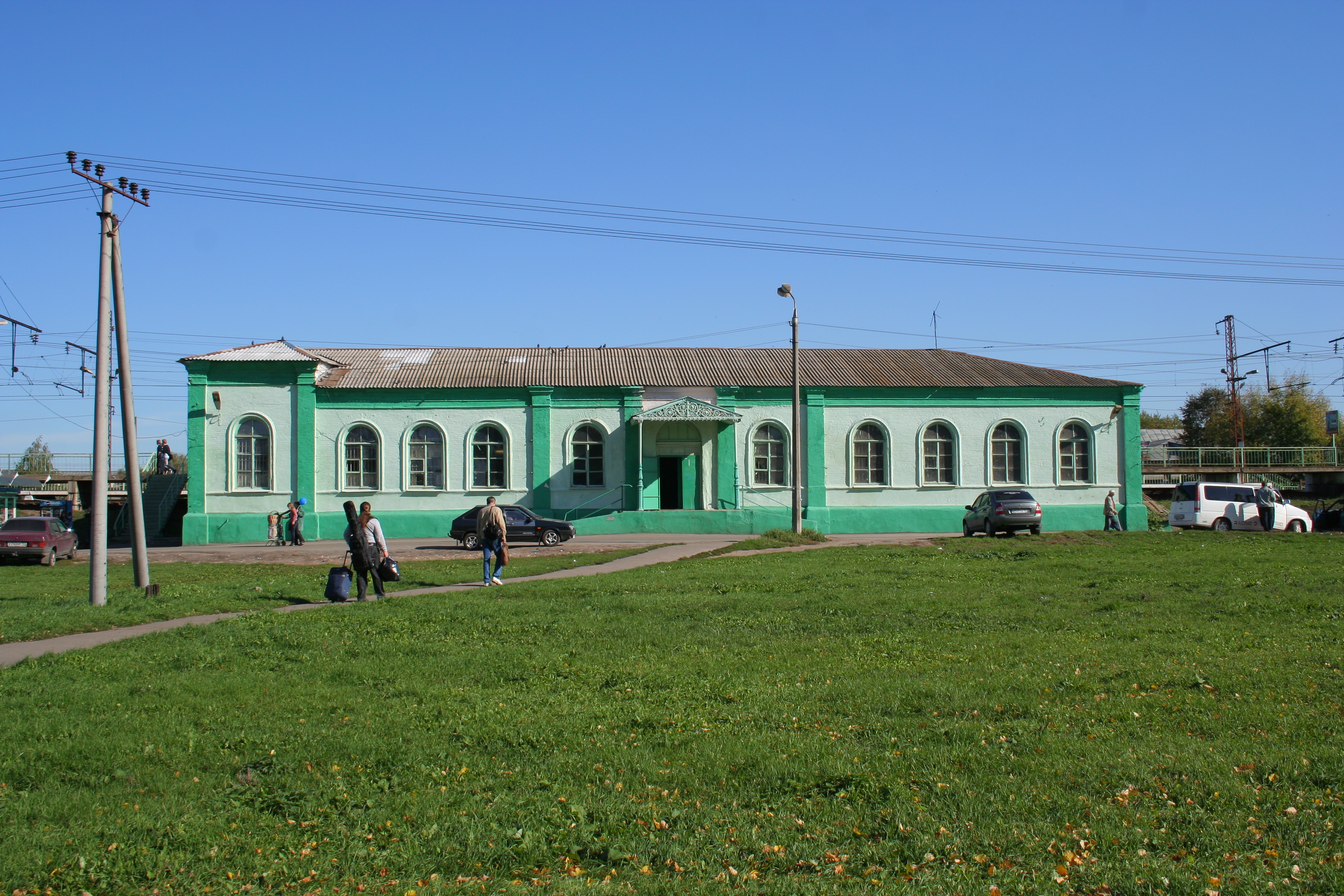 Train stop Kolomna, Moscow Oblast